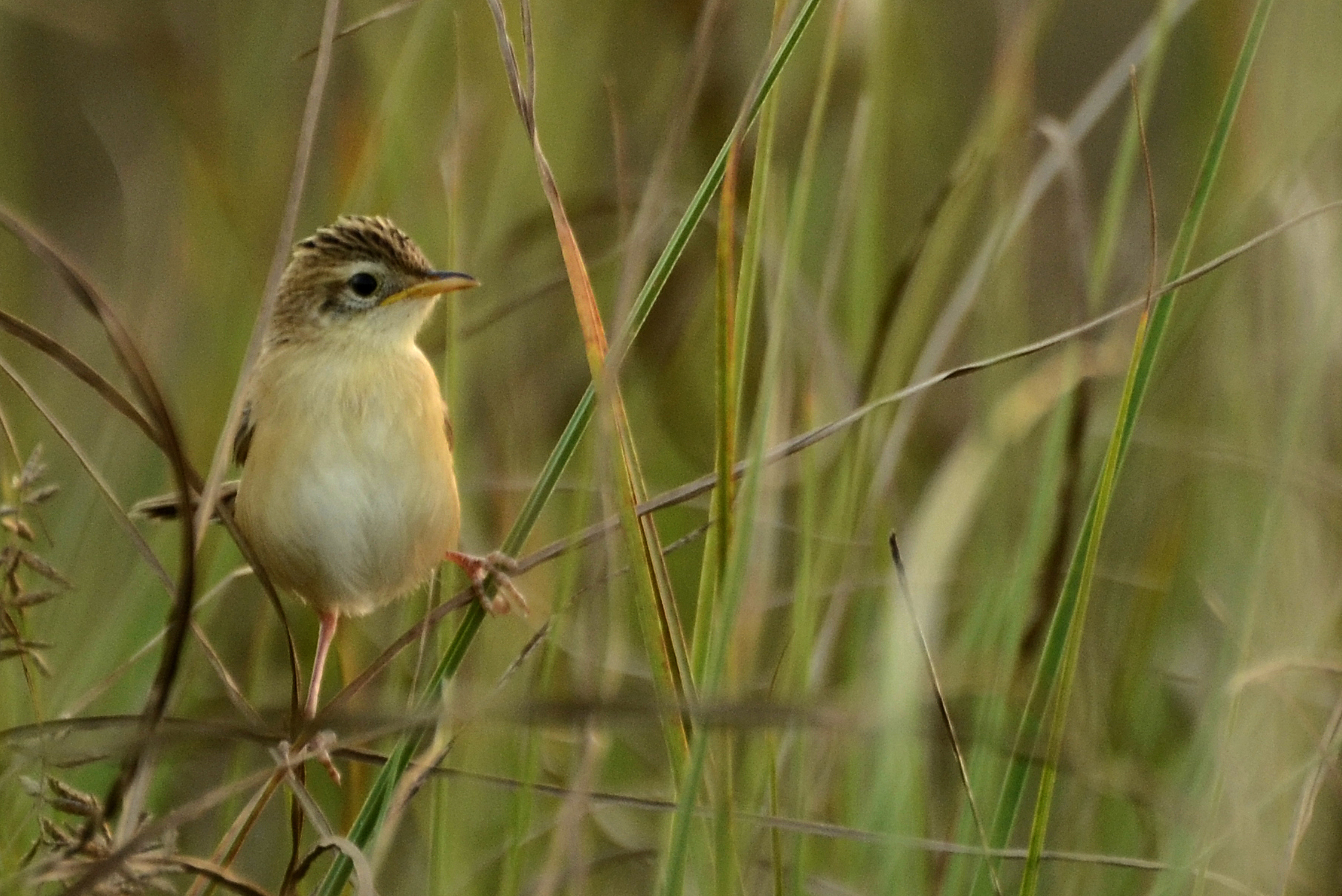 Zitting Cisticola Cisticola juncidis from Tiruchirapalli district